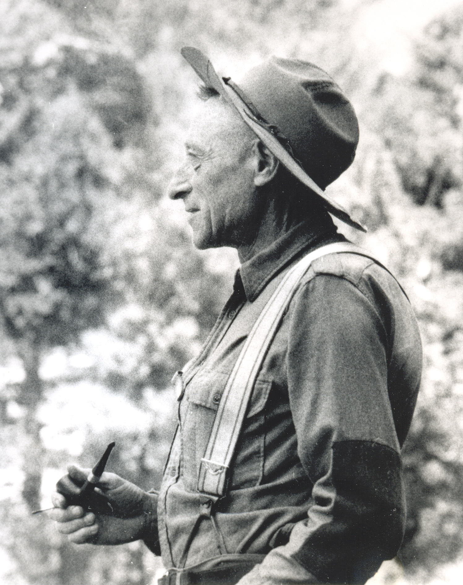 Carl W. Sharsmith, a Yosemite National Park ranger